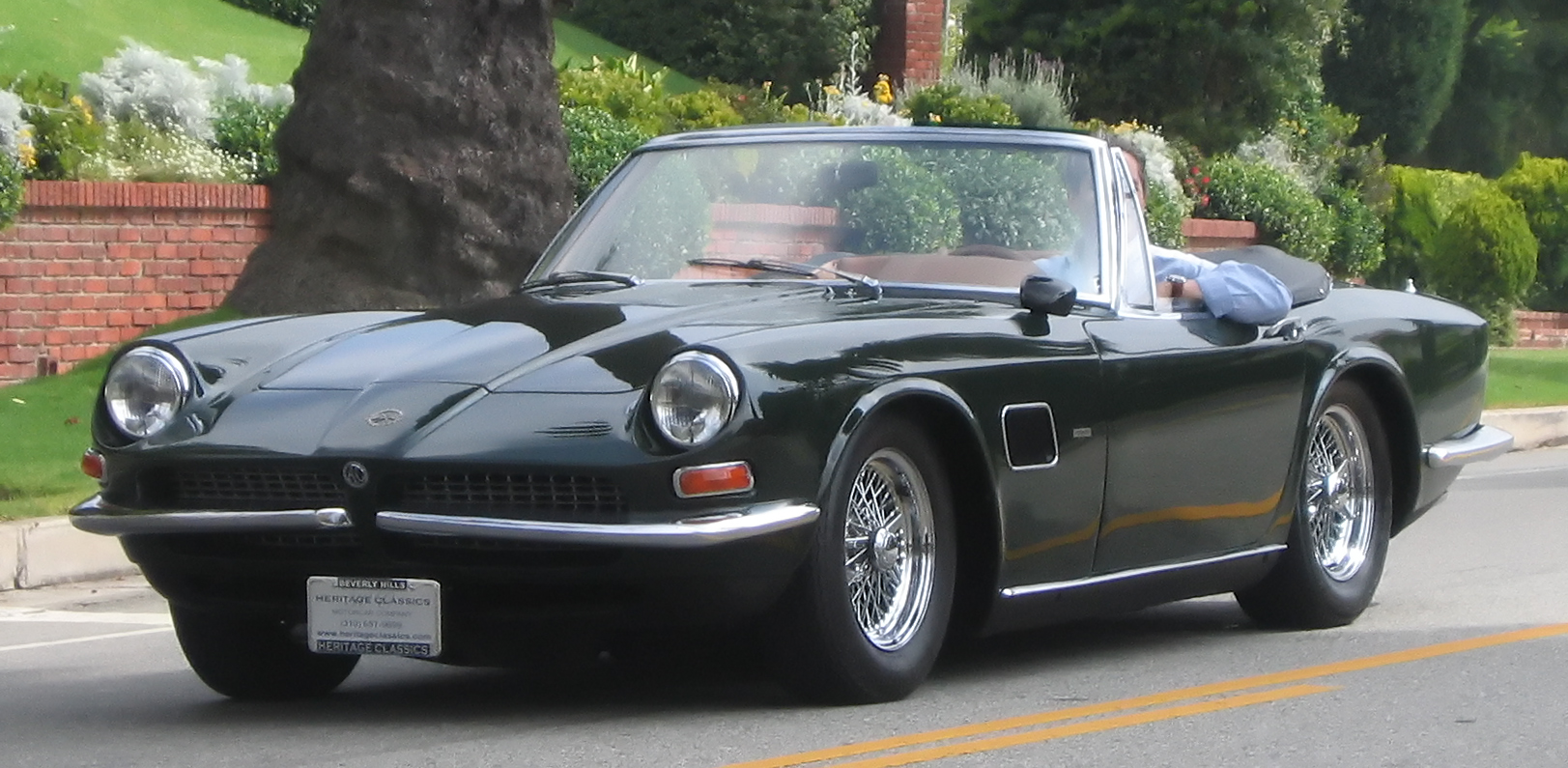 A photo of my Ac Frua!